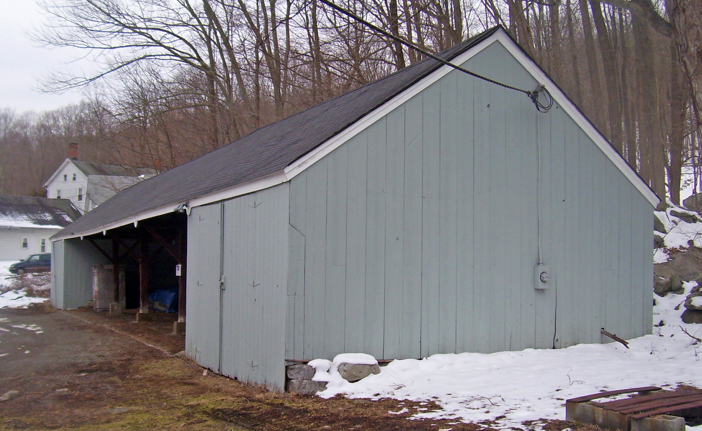 Carriage house at now-closed Tompkins Corners United Methodist Church in Putnam Valley, NY, USA, a contributing resource to the church's listing on the National Register of Historic Places